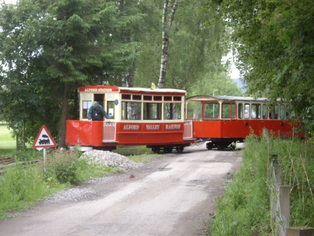 There she goes; there she blows.